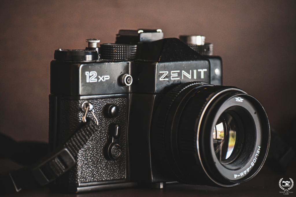 Picture of the camera I took and used for my blog article